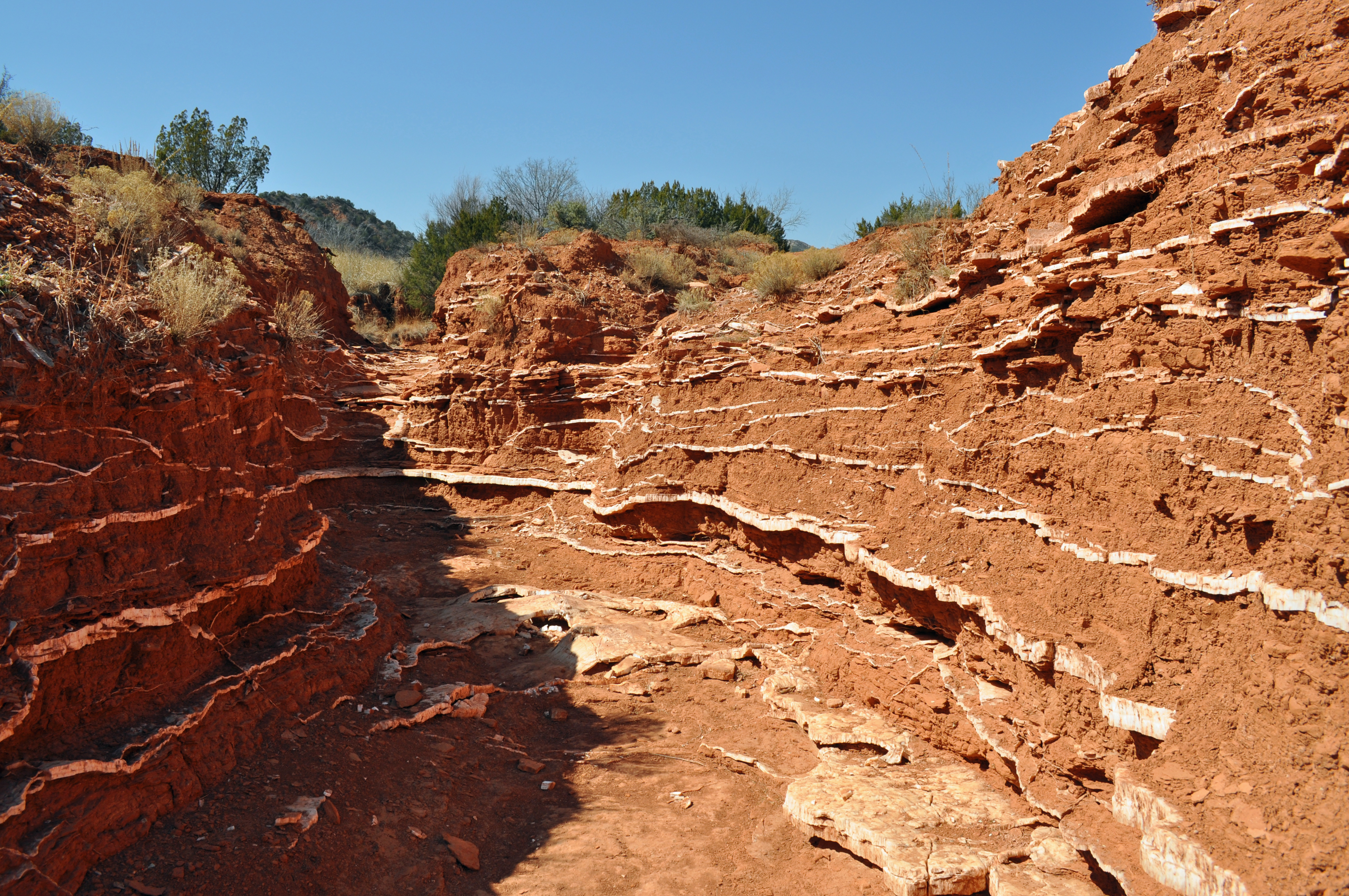 Gypsum layers in a wash that have been exposed by erosion in Caprock Canyons State Park, Texas.